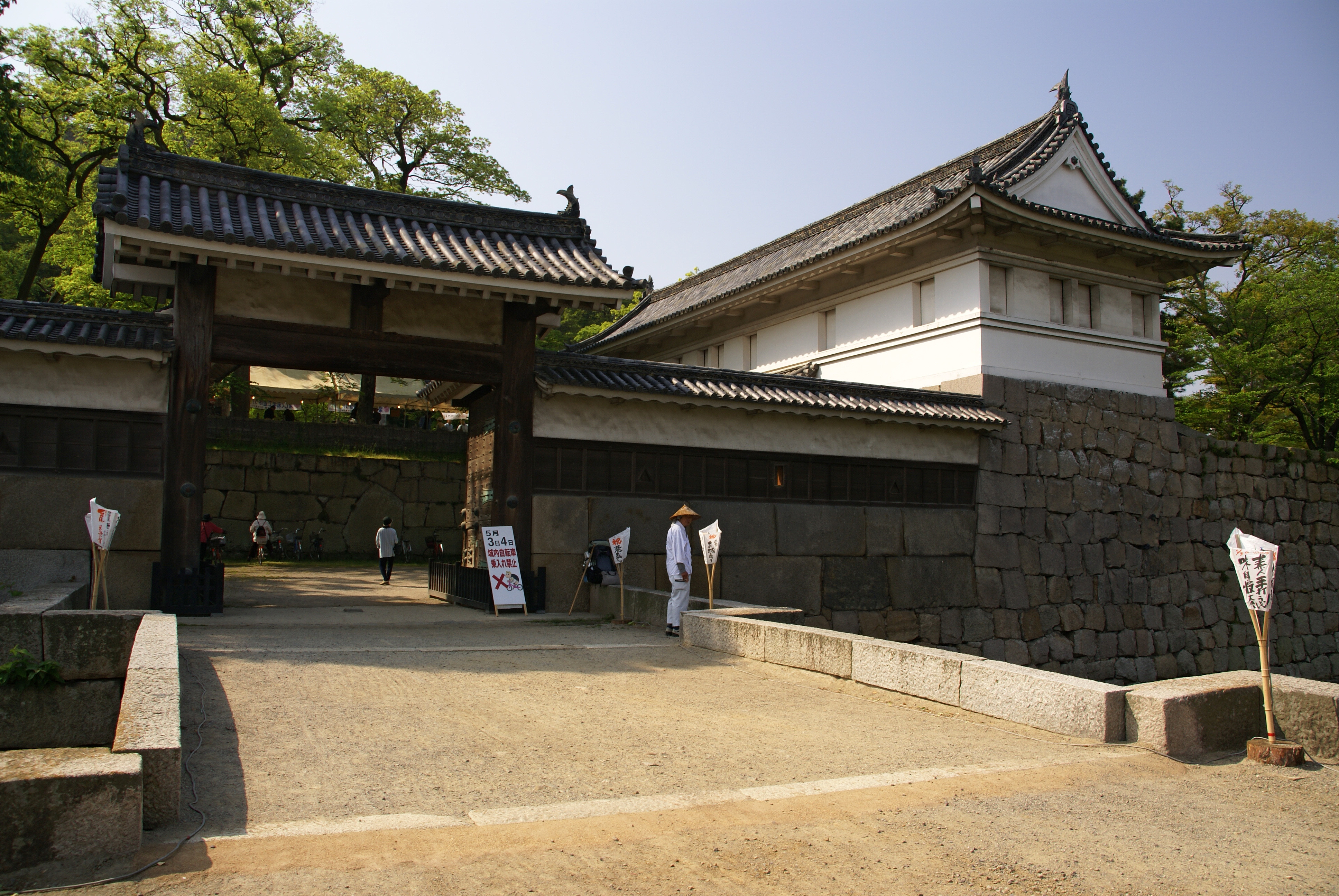 Marugame Castle in Marugame, Kagawa prefecture, Japan